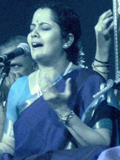 Gayathri Venkat